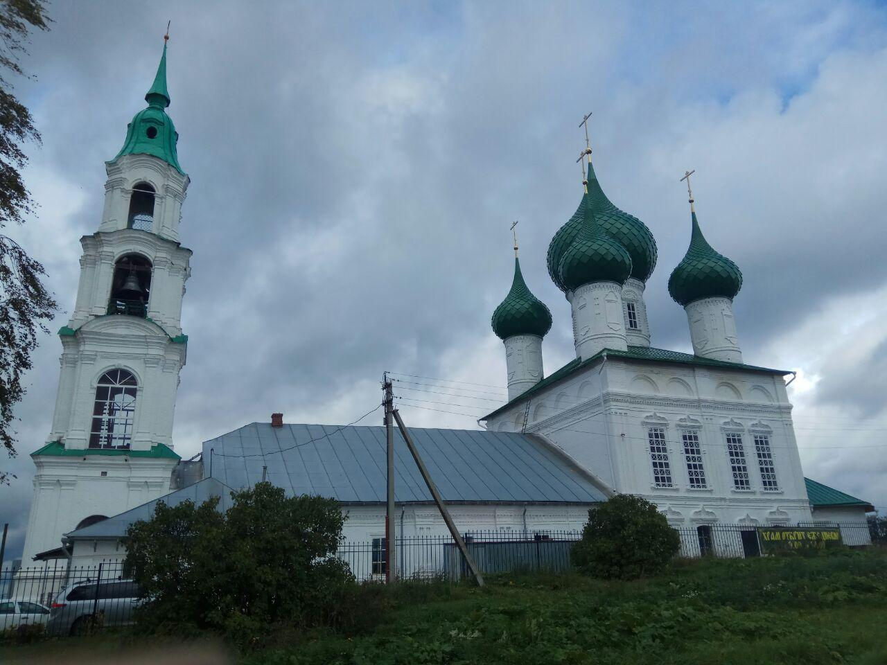 Вид на Воскресенский храм